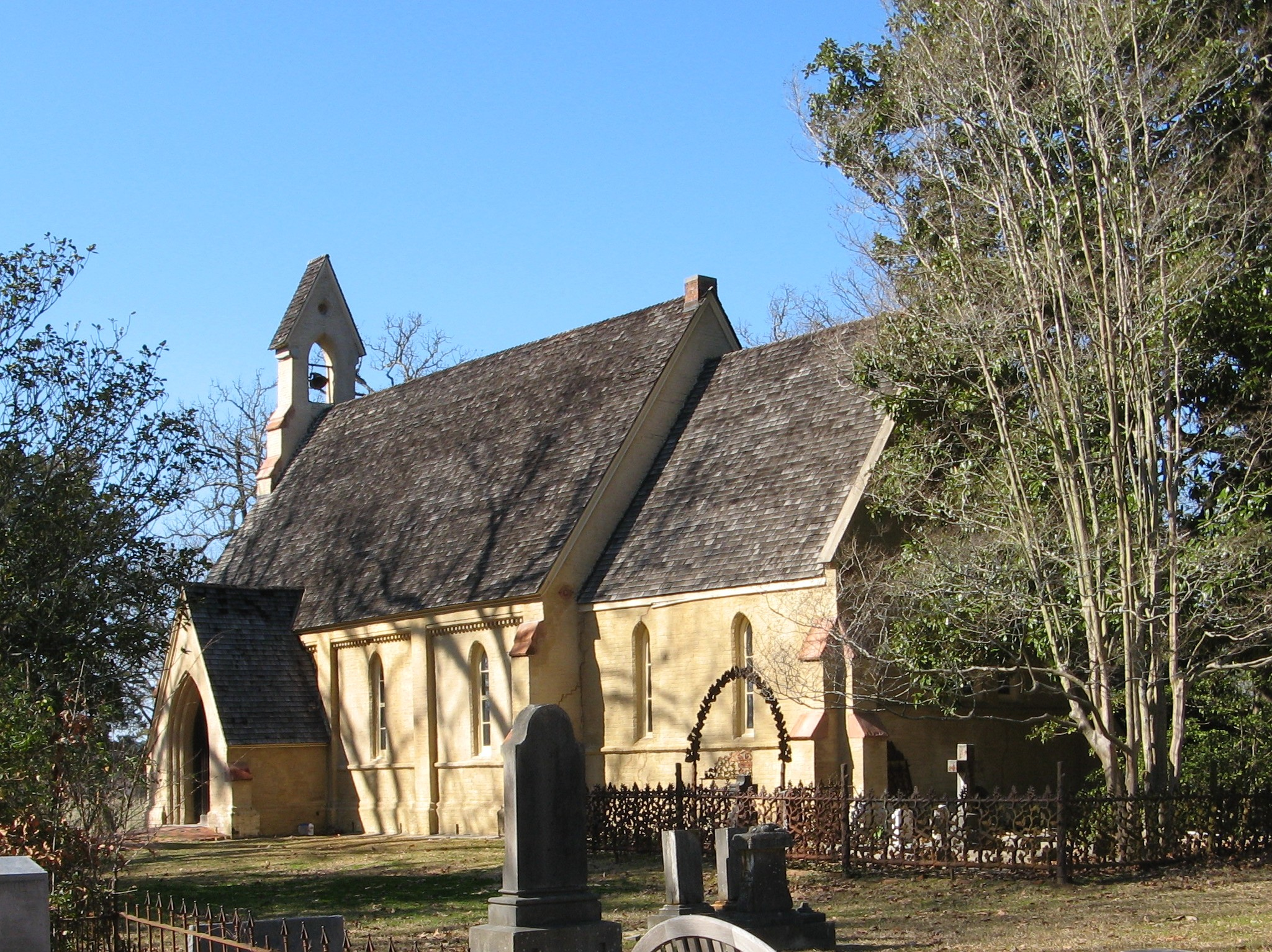 Cropped version of File:Chapel of the Cross 03.jpg